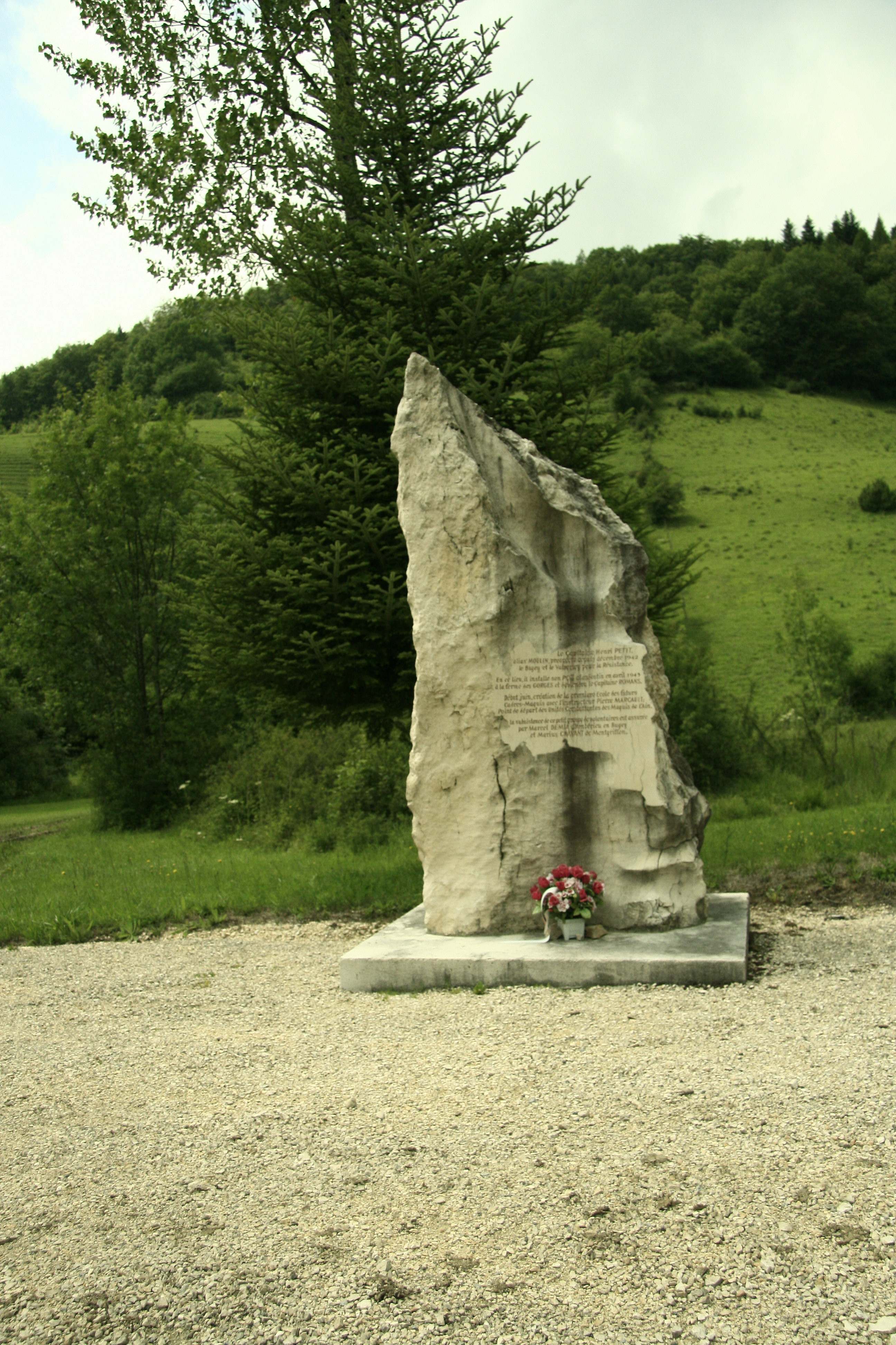 Stèle commémorative de la résistance Colognat Ain